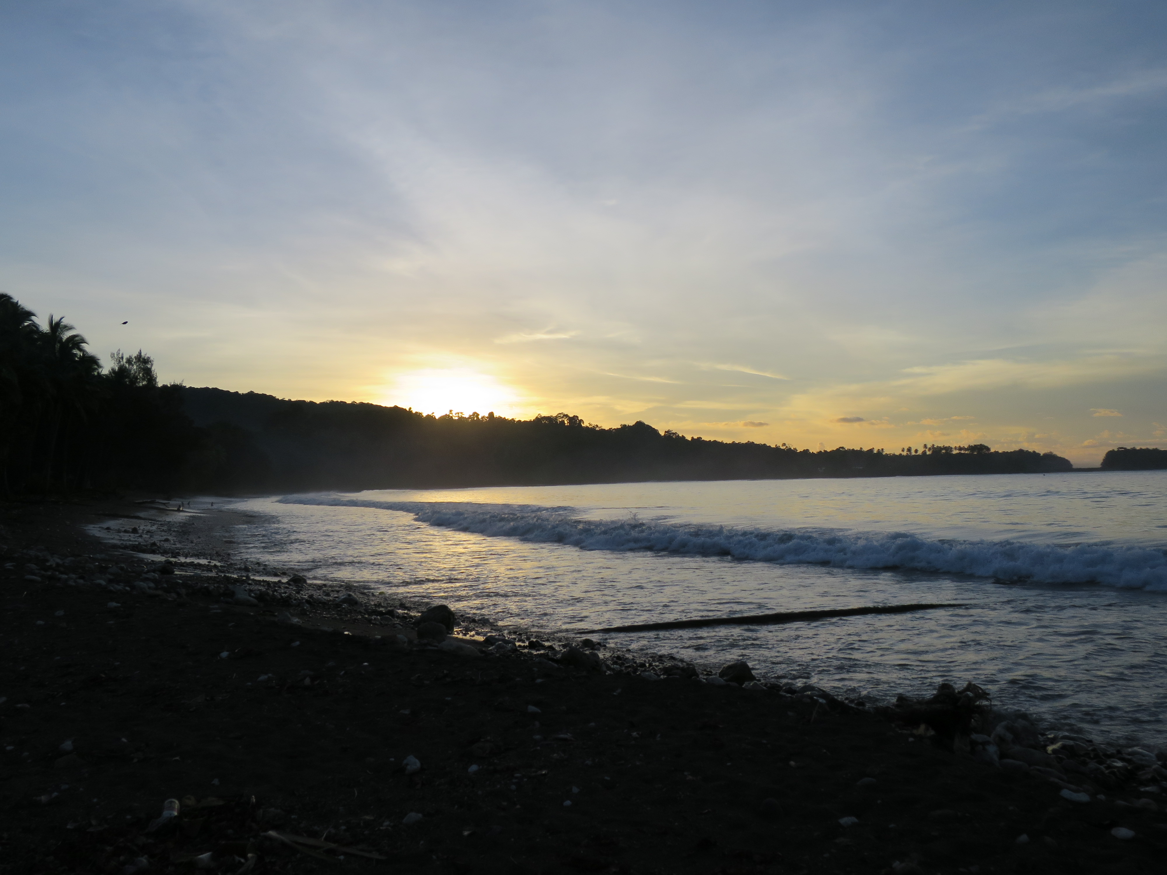 This photograph was taken at sunset at the local beach in Kirakira.